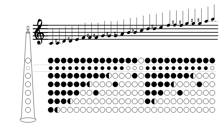 Castilla's dulzaina fingerin